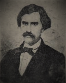 Mgrdich Bodourian, Hay Hanrakidag, 1938 Boukresh, Part 2